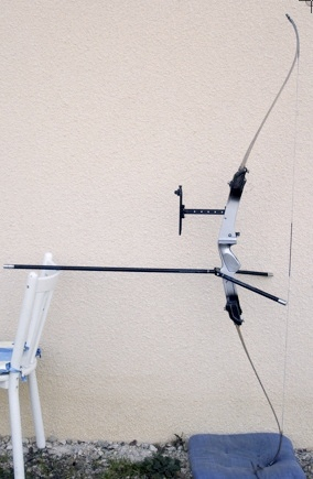 Recurve bow with stabilizer